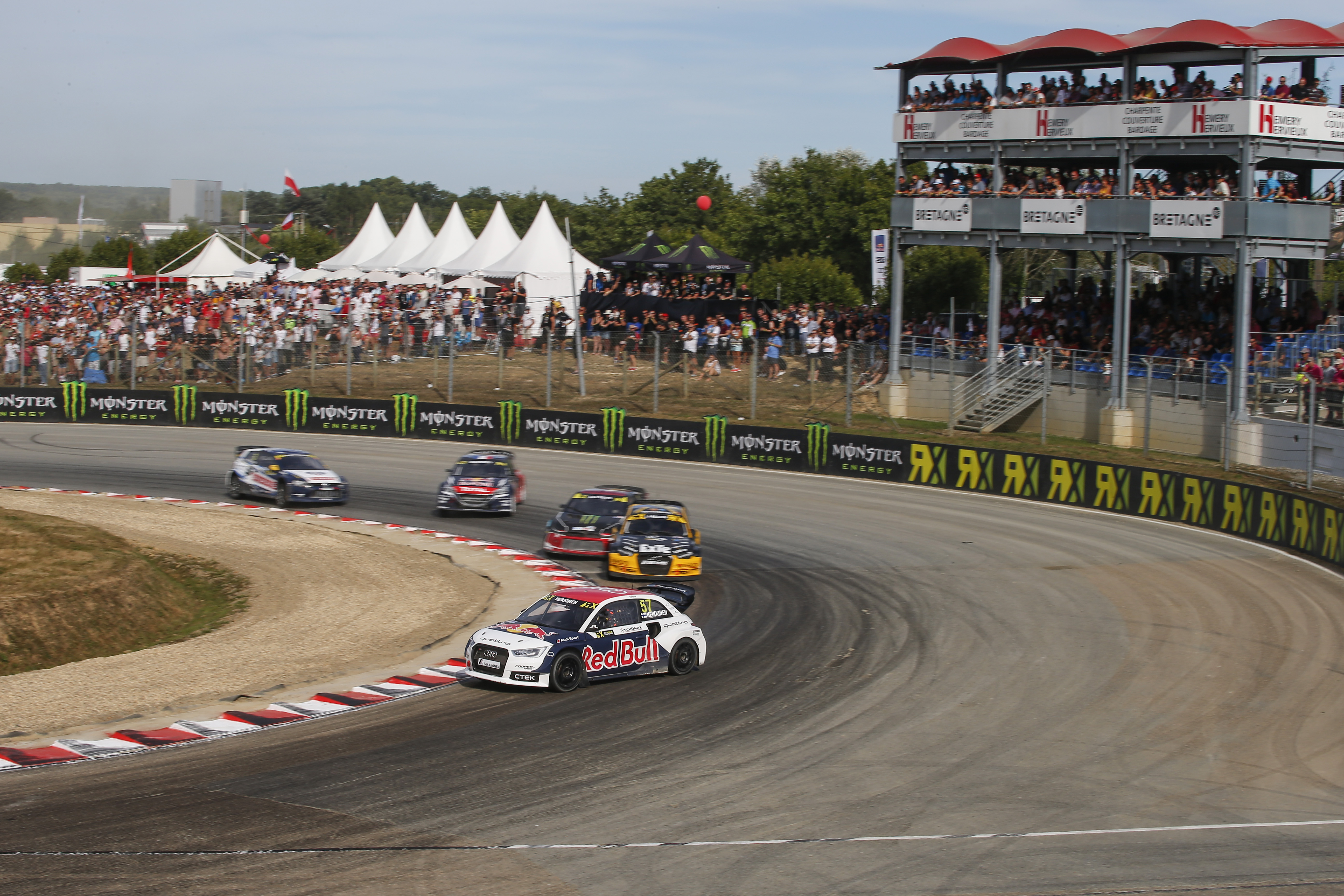 2016 FIA World RX Rallycross Championship / Round 08, Loheac, France, September 2-4 2016 // Worldwide Copyright:Tony Welam/EKS/McKlein